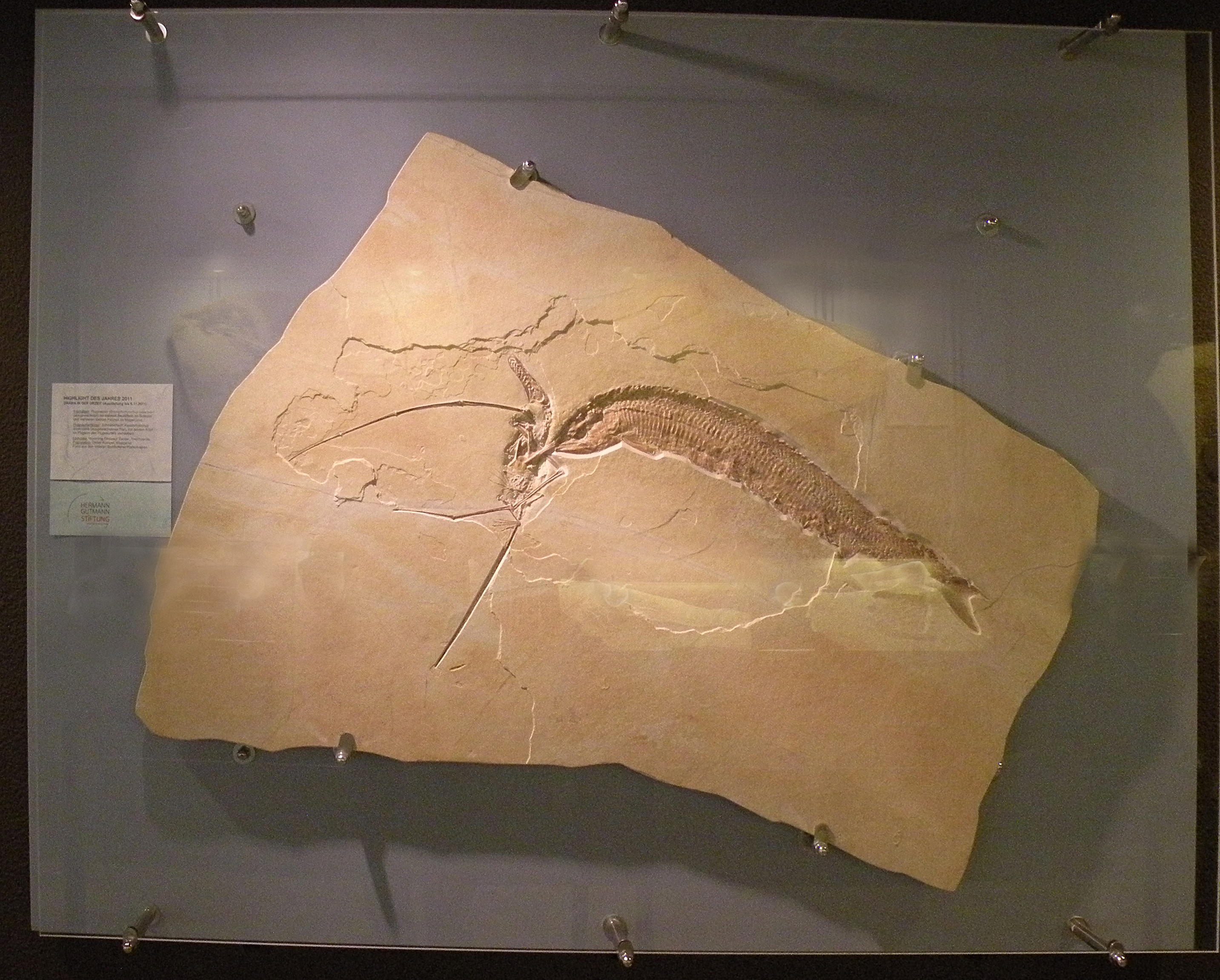 “Das Drama aus der Urzeit” (“prehistoric drama”) preserved in Solnhofen lithographic limestone of the Upper Jurassic: The basal actinopterygian fish Aspidorhynchus acutirostris preying on an individual of the rhamphorhynchid pterosaur Rhamphorhynchus muensteri. The Rhamphorhynchus in turn has its last meal still stuck in its throat: a small teleost fish of the genus Leptolepides (“Solnhofen sprat”), unfortunately not visible in the image.[1]